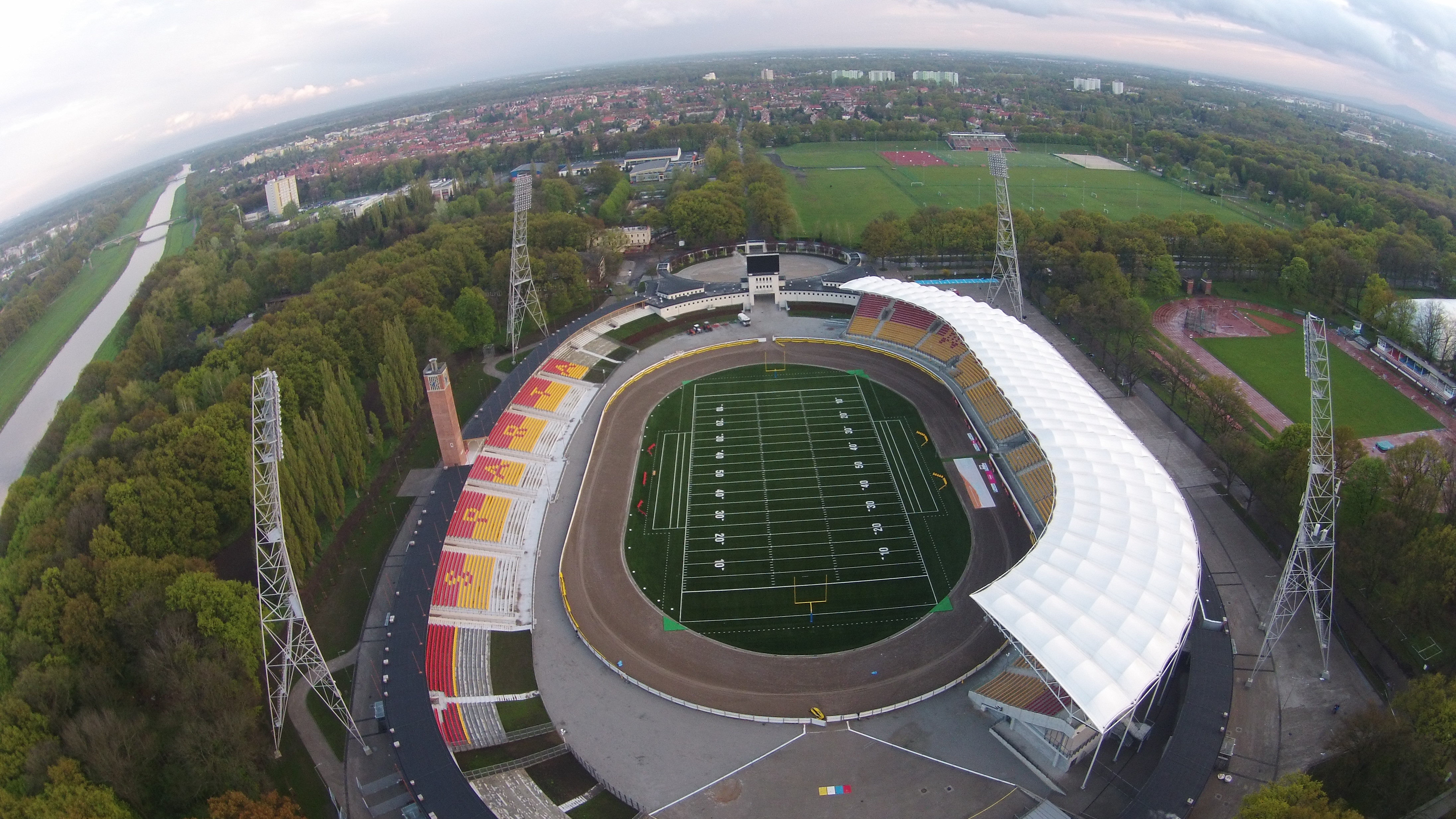 Olympic Stadium in Wrocław